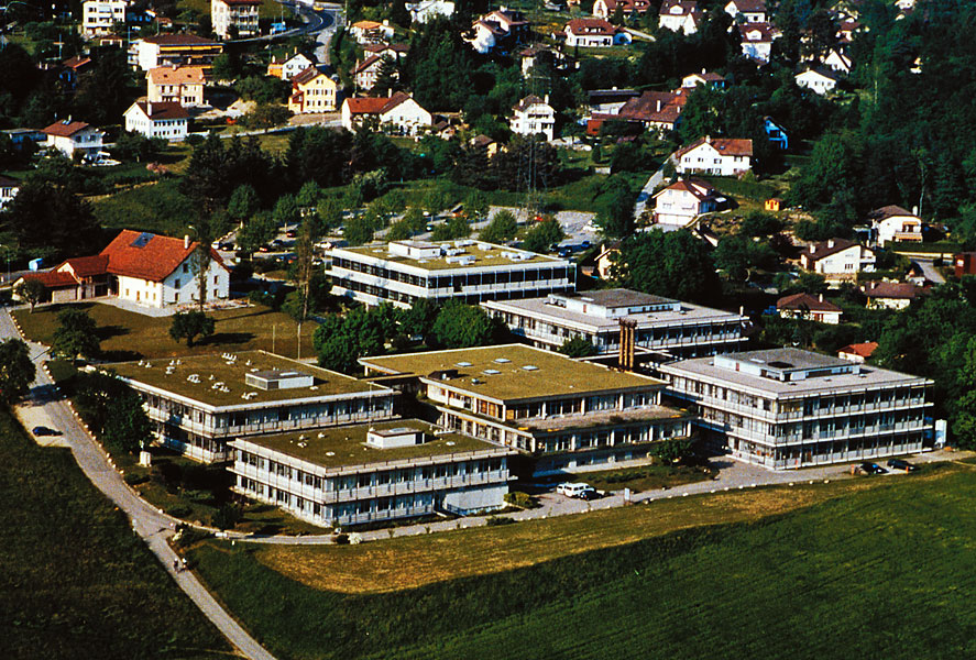 The Centre des laboratoires d'Épalinges (CLE), in Épalinges.Formerly (at the time of the picture): laboratories of the Canton of Vaud, the University of Lausanne, the Ludwig Institute and the Swiss Institute for Experimental Cancer Research (ISREC).Currently: laboratories of the Canton of Vaud, the University of Lausanne (including the Ludwig Center for Cancer Research of the University of Lausanne) and the University Hospital of Lausanne (CHUV).